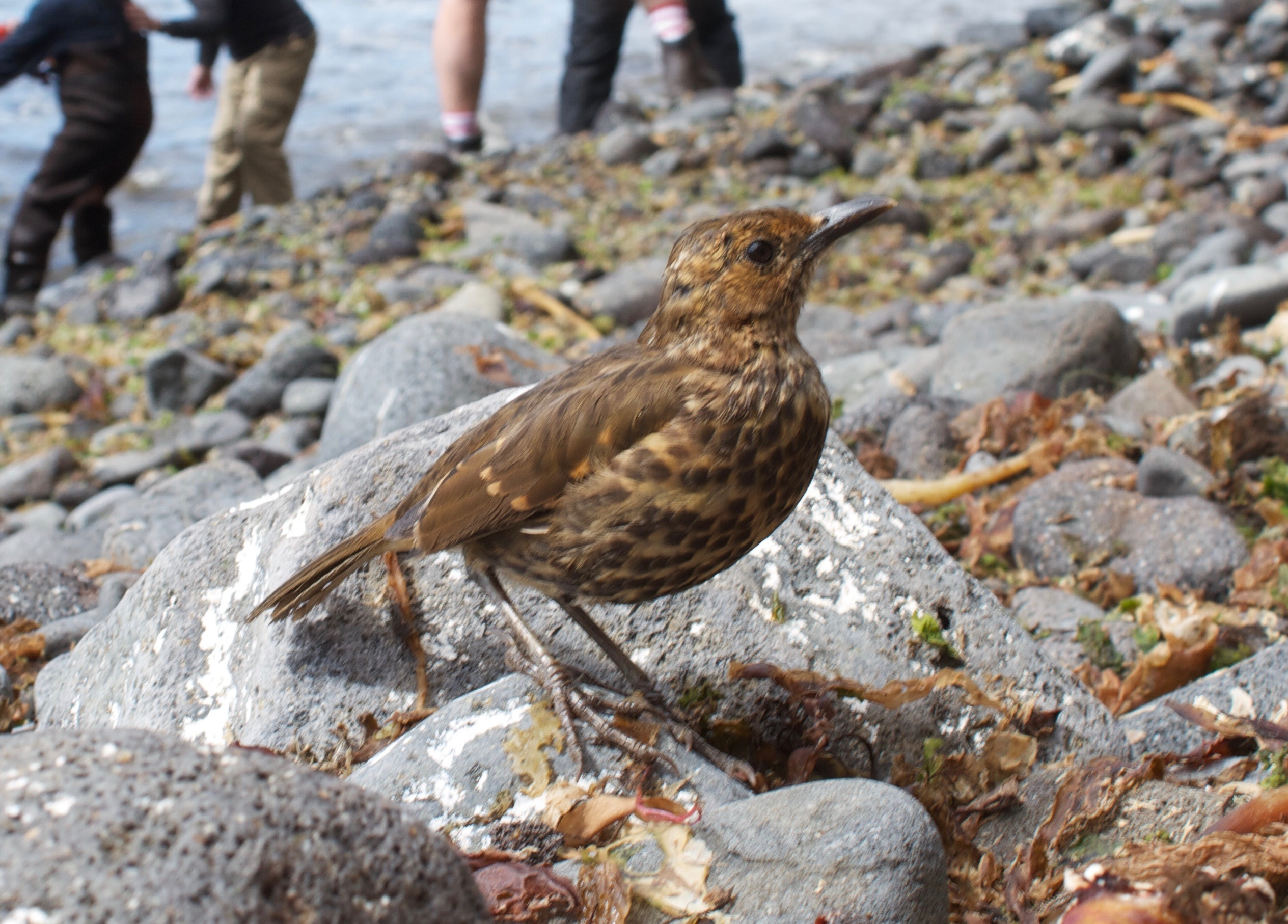 Tristan thrush on Inaccessible Island.